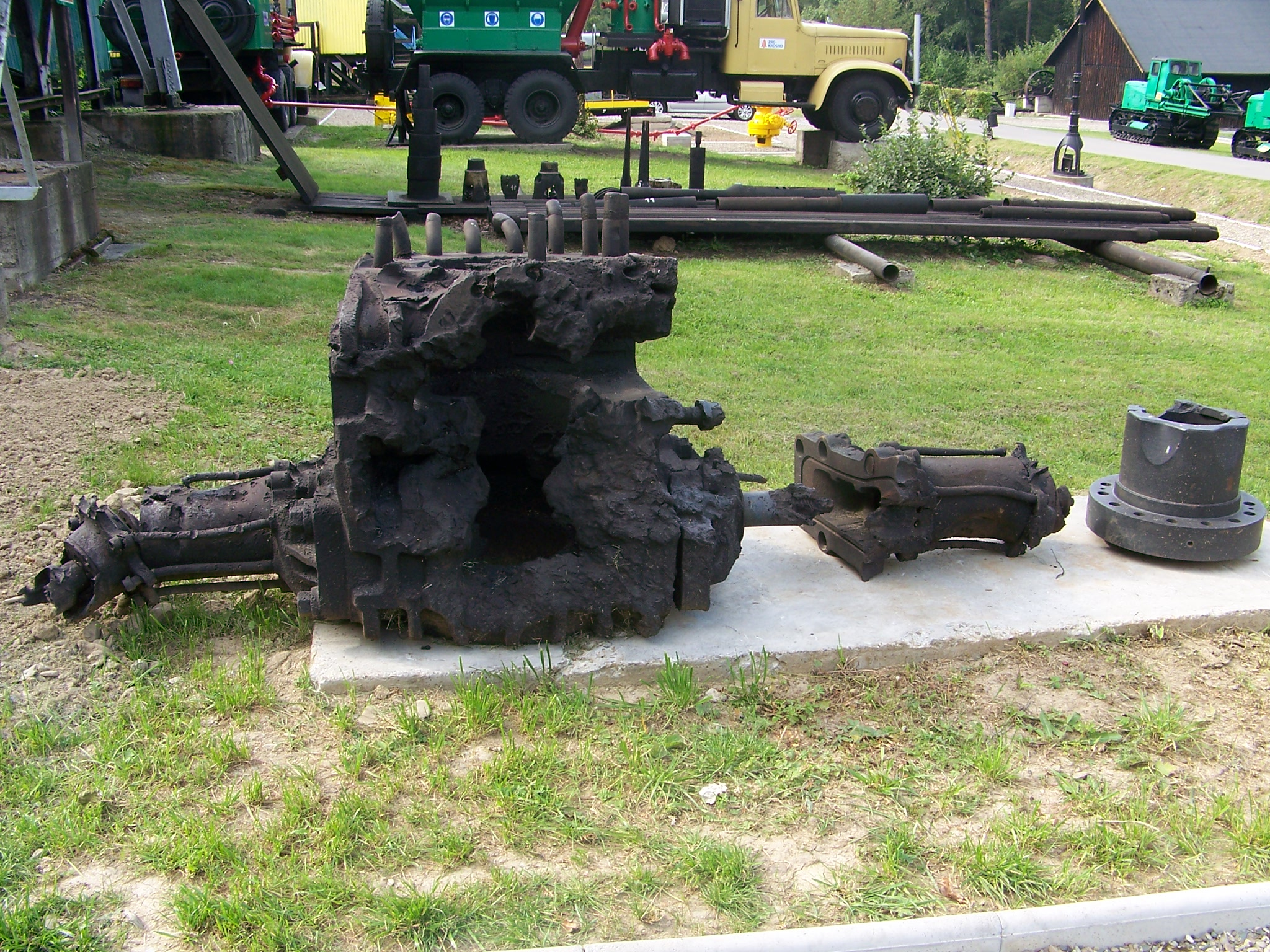 Explosion relief preventer from Daszewo 1 oil well near Karlino - exhibit in Museum of Oil and Gas Industry in Bóbrka, Poland